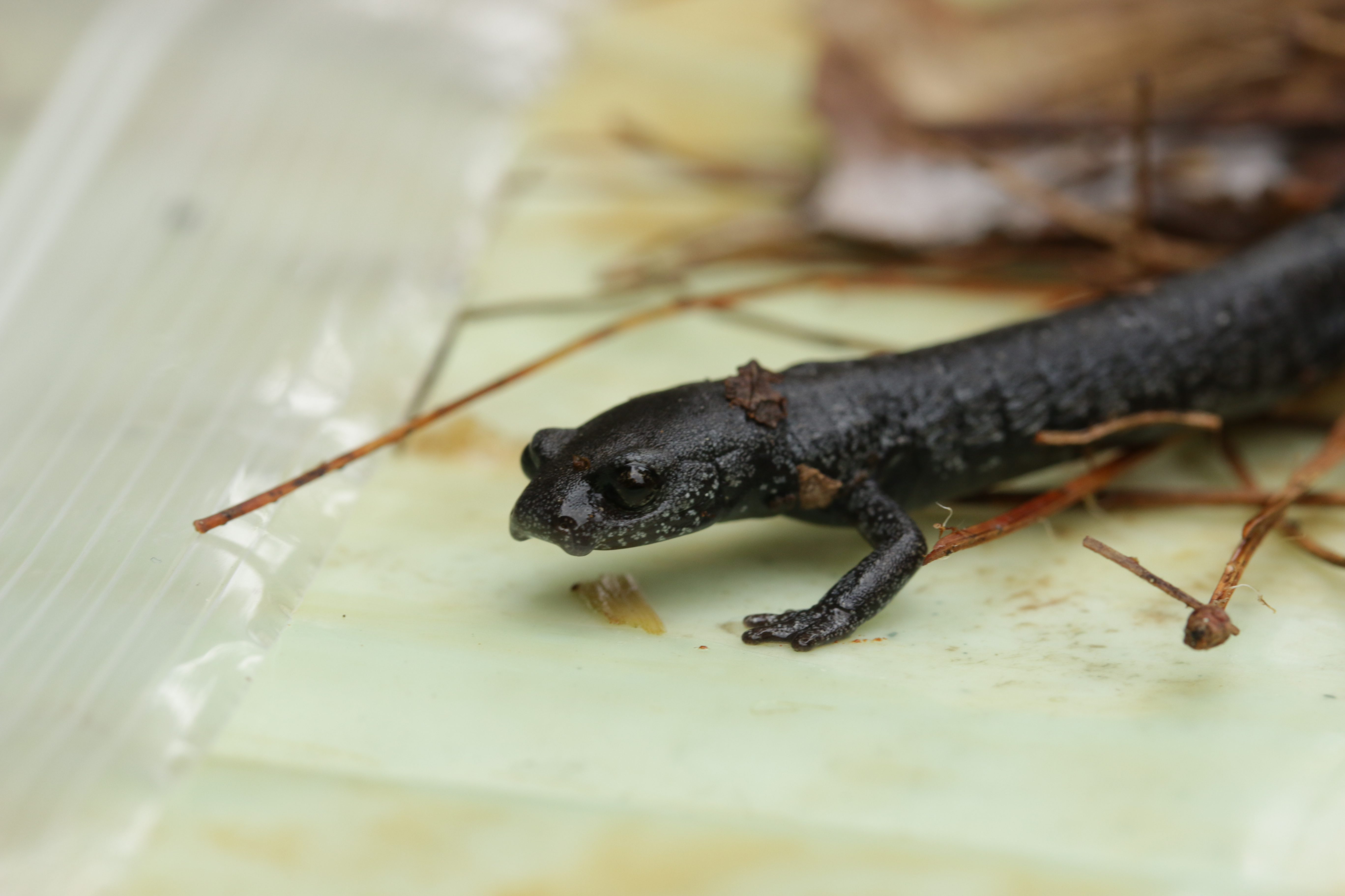 Aquiloeurycea cephalica